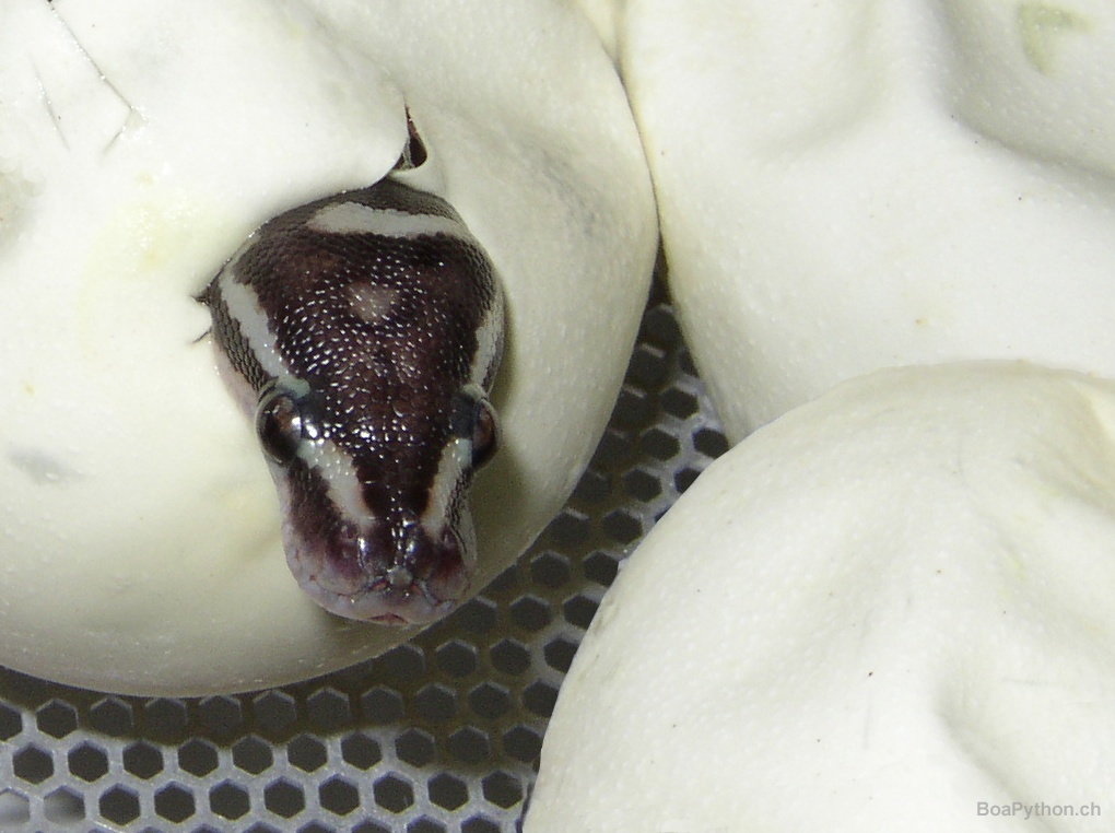 An Angolan Dwarf Python (Python anchietae) hatching. This specimen was bred in captivity. This picture is a donation of Markus Borer